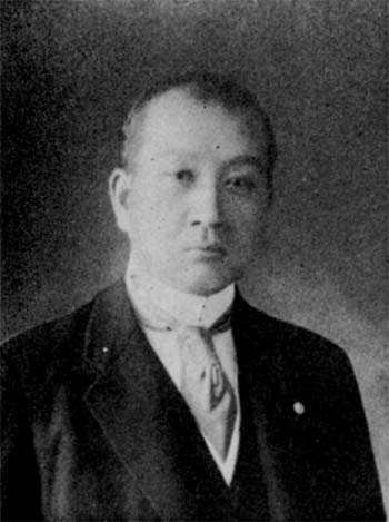 Kinichi Takebe, 2nd president of the Hiroshima University of Literature and Science and 4th director of the Hiroshima Higher Normal School.